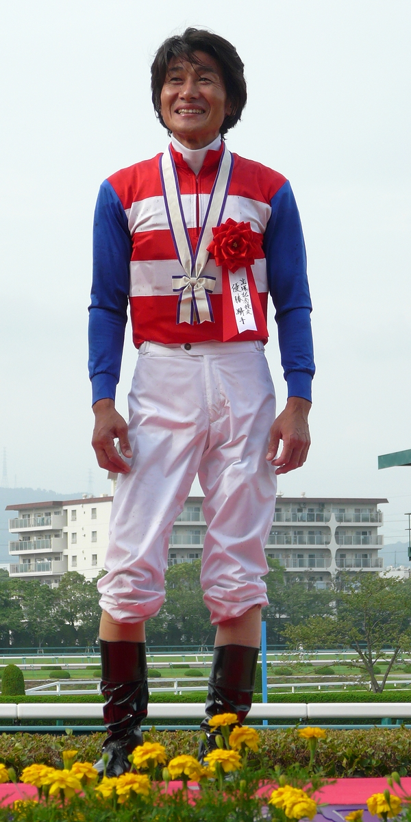 Yoshitomi-Shibata20100627